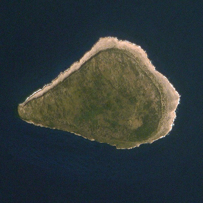 NASA astronaut photo of Navassa Island, Caribbean Sea